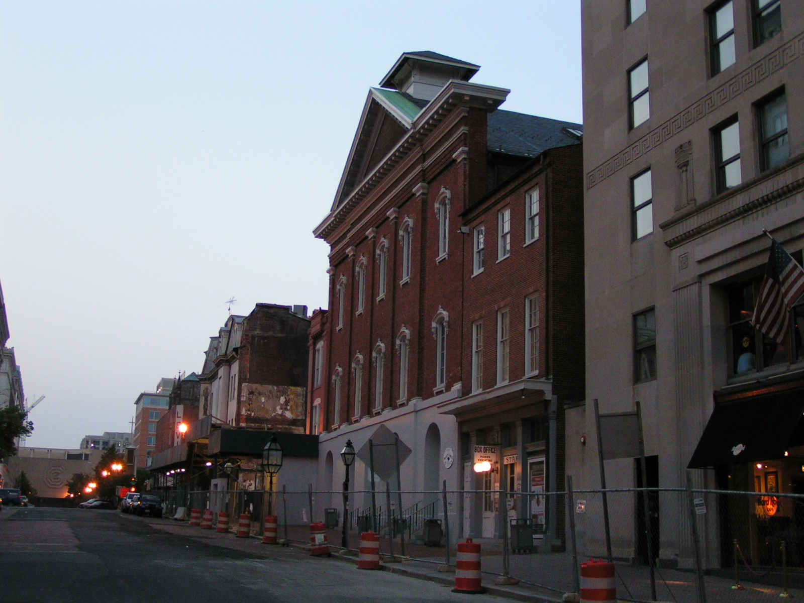 Ford' Teatro en Washington, D.C. Aquí es donde asesinaron a Presidente Abraham Lincoln en 1865. (Ford's Theater in Washington, D.C. This is where President Abraham Lincoln was assassinated in 1865.)